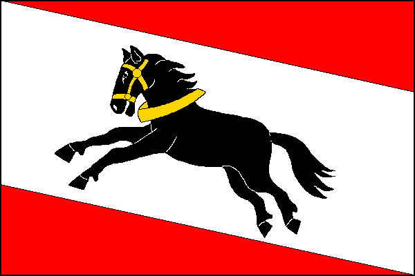 Municipal flag of Slatiňany town, Chrudim District, Czech Republic.